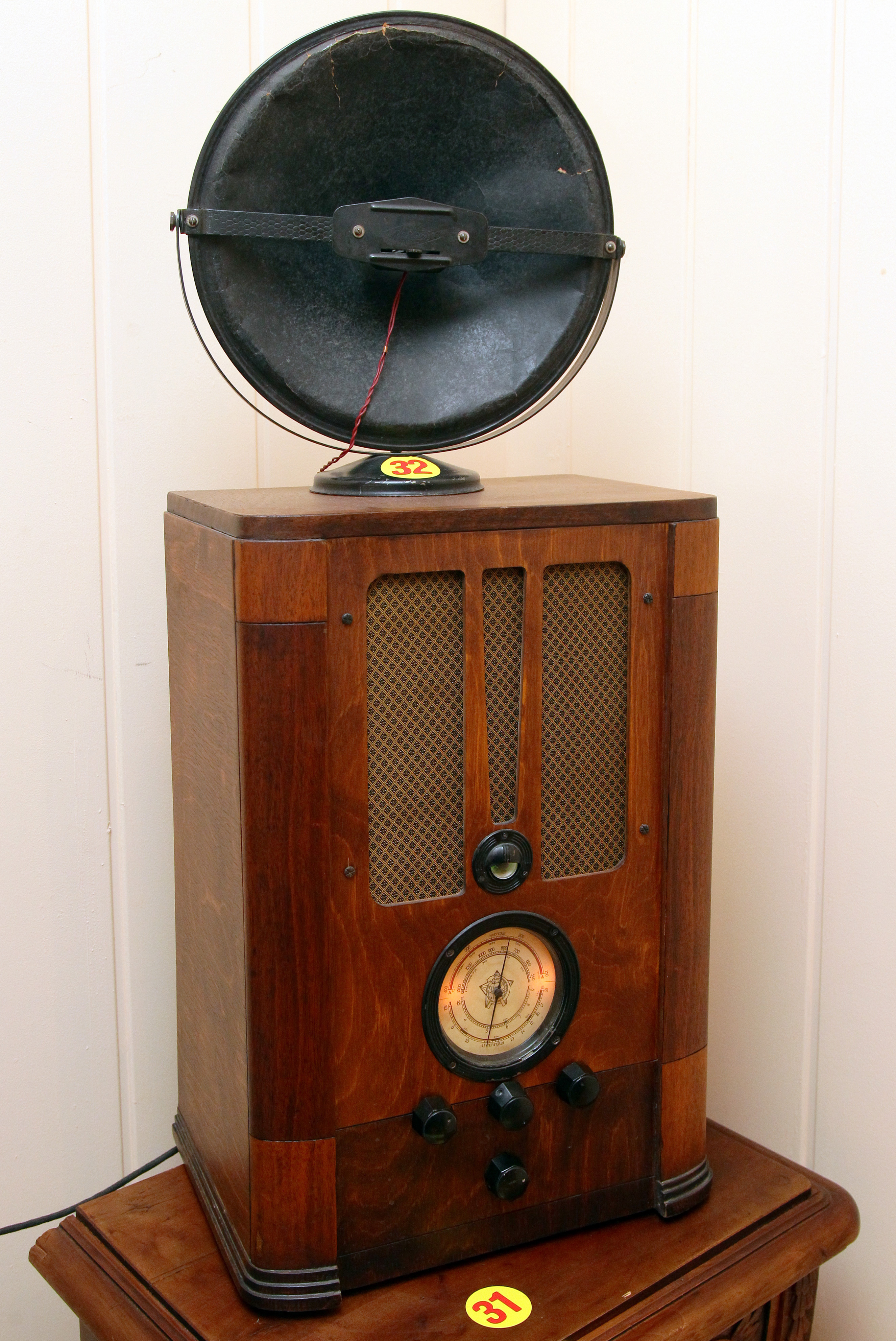 Soviet radio receiver SVD-9, made in 1939.